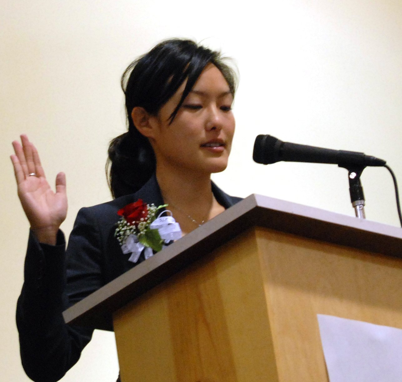 Community organizer Jane Kim is sworn in to the San Francisco Board of Education on January 6, 2007. Photo by Kevin Cheng.